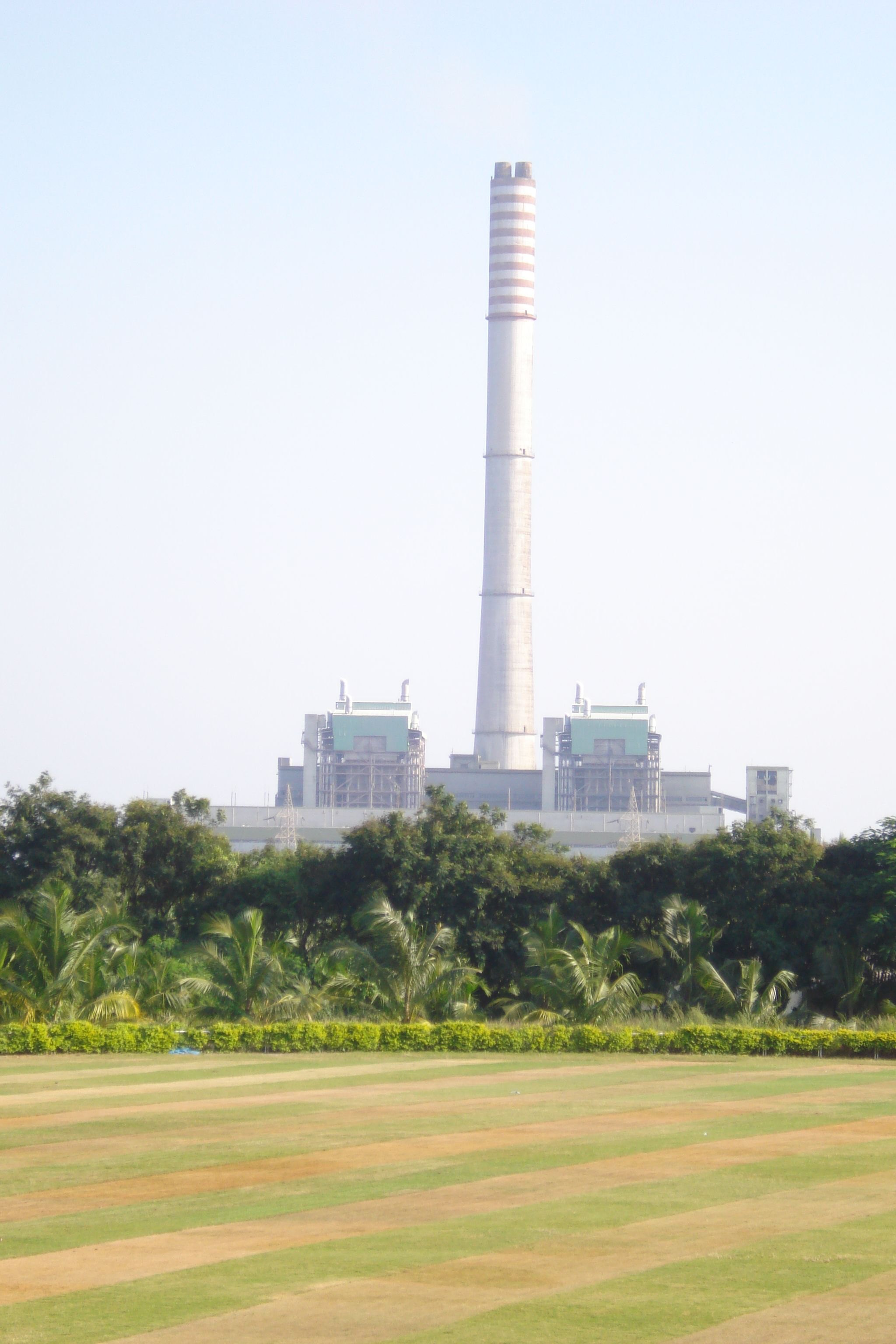 View of Dahanu Thermal Power Plant, Reliance Energy